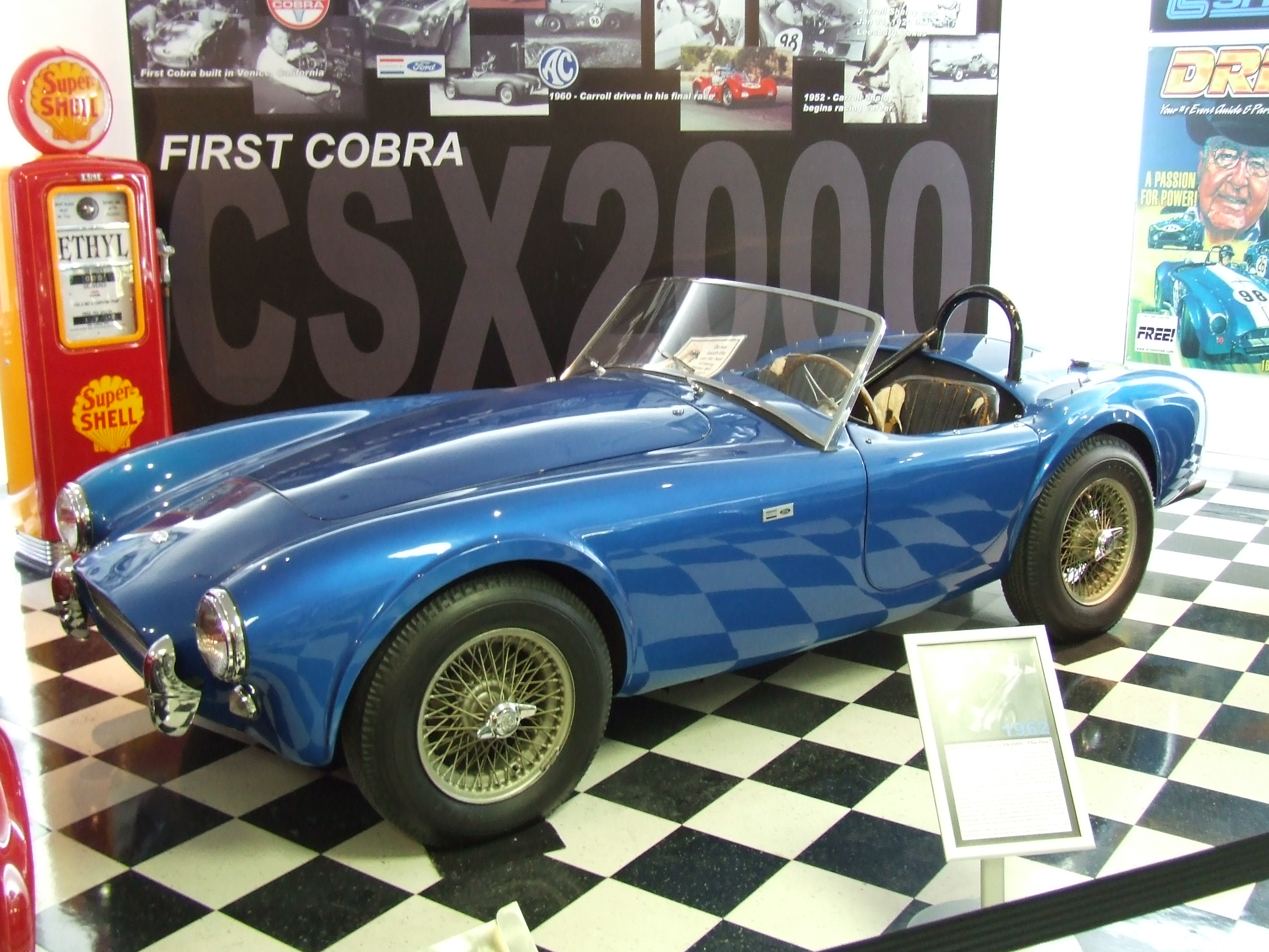 Shelby AC Cobra, CSX2000, the prototype Shelby Cobra, Shelby American Museum, Las Vegas, NV "CSX2000 is the first Shelby Cobra ever built and quite possibly the most valuable American sports car in the world. This 1962 Cobra has been owned by Carroll Shelby personally since it was built and is in "survivor" condition. The car still has its original four speed Ford 260 c.i.d. engine, brakes, interior and body. As this Shelby was used in various magazine stories when the Cobra was introduced, it has been painted several different times." - Shelby American Museum.